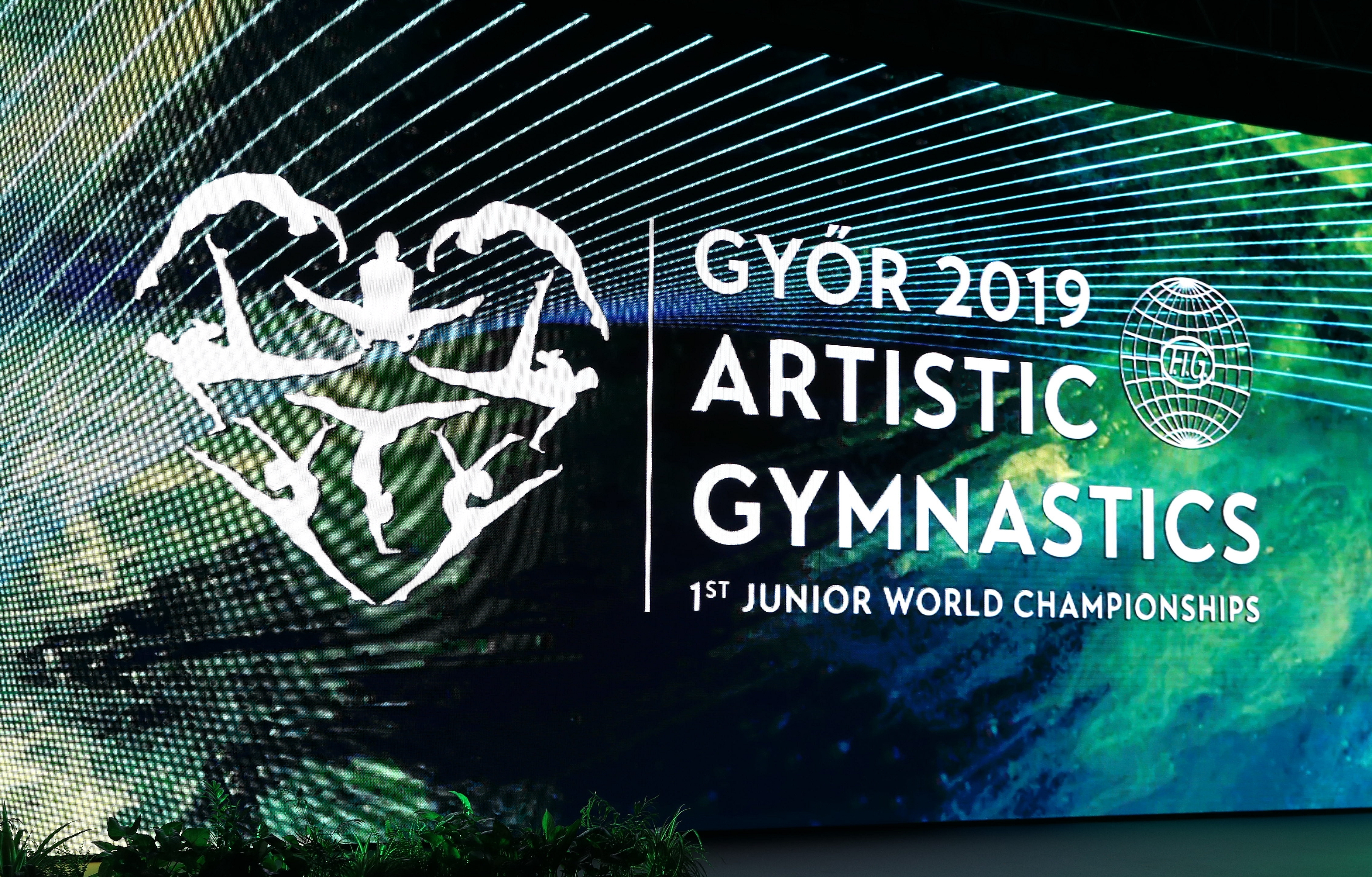 Impressions from the opening ceremony at the 1st FIG Artistic Gymnastics Junior World Championships on 27 June 2019 in Győr, Hungary.